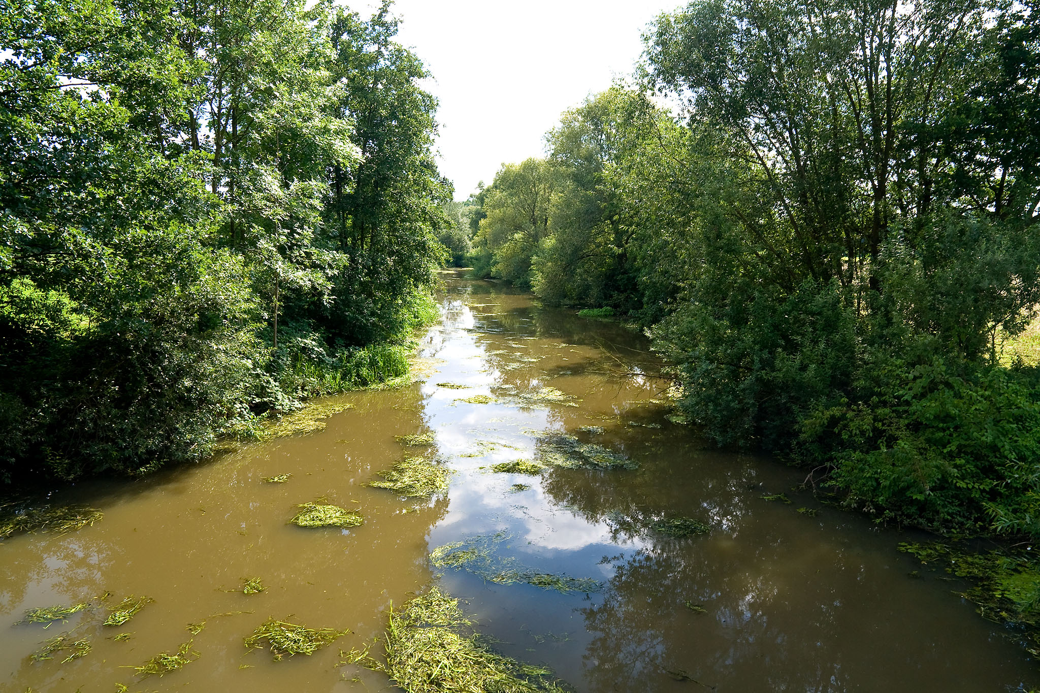 Alte Jeetzel River near Langenhorst in the district Luechow-Dannenberg in Lower Saxony, Germany.